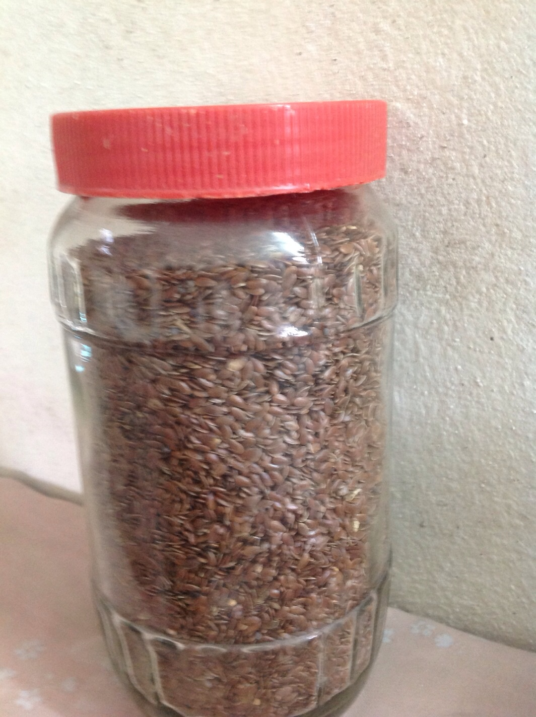 Linseed seeds